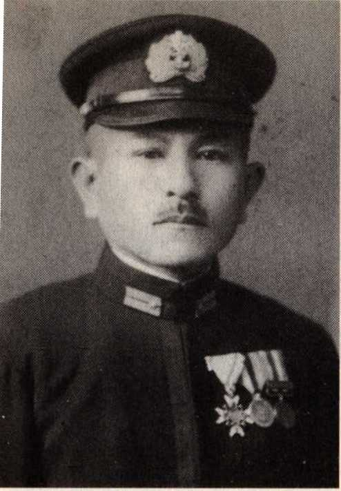 Oohashi Katsuo is an Imperial Japanese Navy Captain